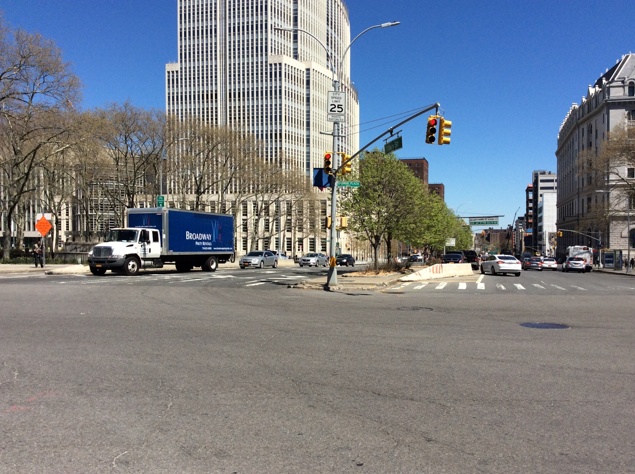 Street view of Downtown Brooklyn, New York, in April 2016